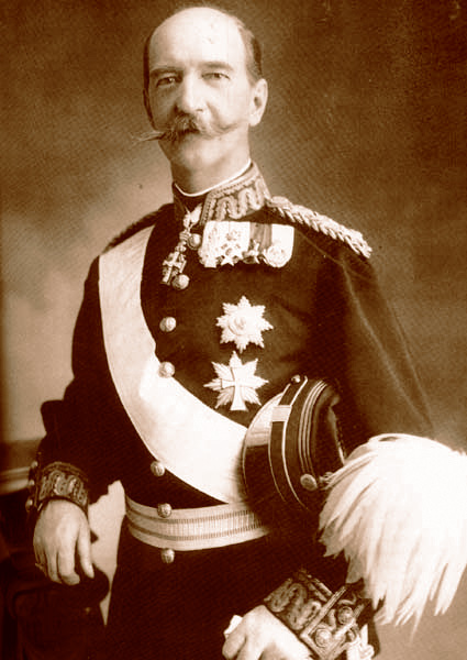 Georgios I, King of Greece (b.1845-d.1913)